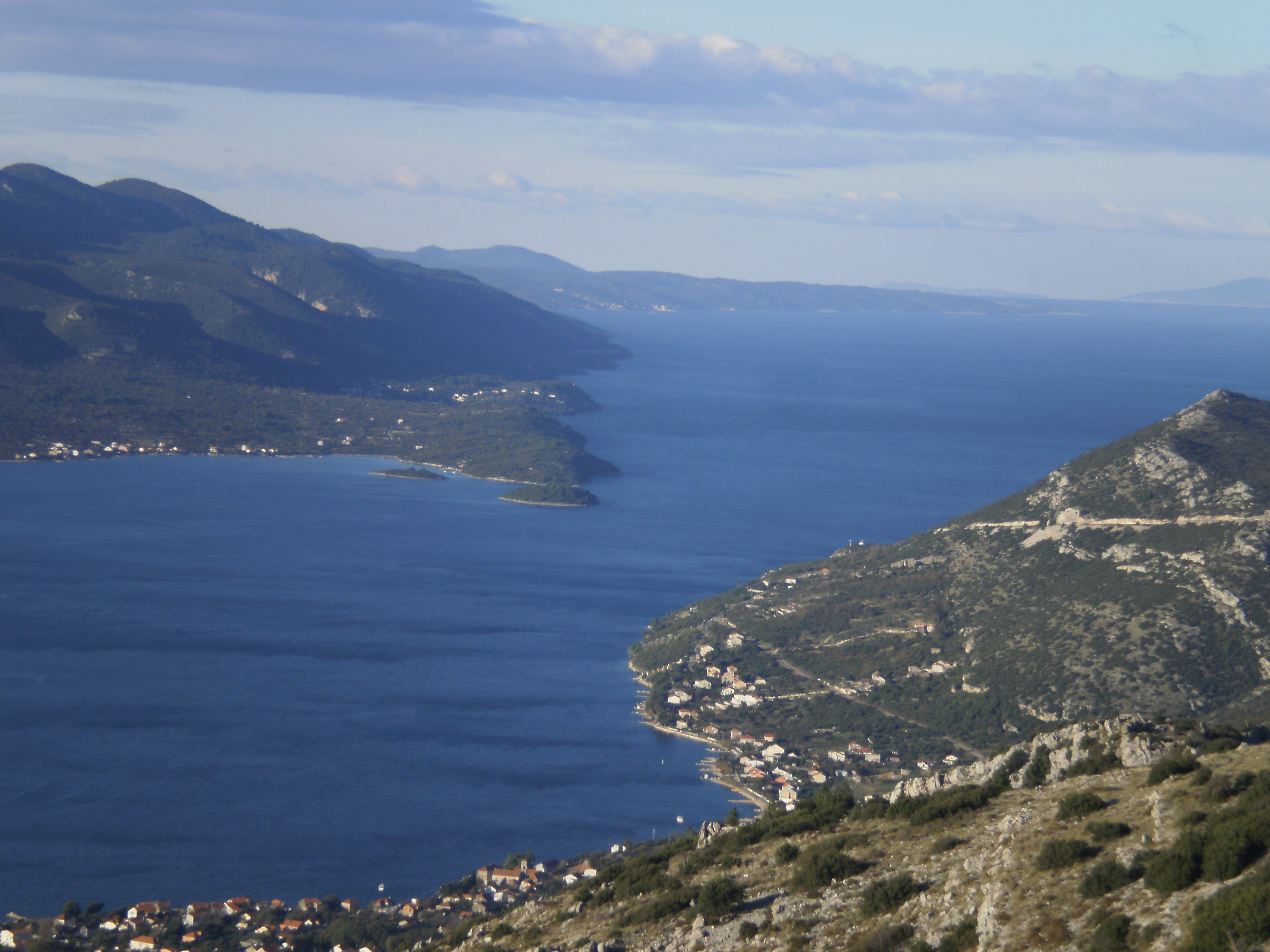 Pelješac channel OLYMPUS DIGITAL CAMERA